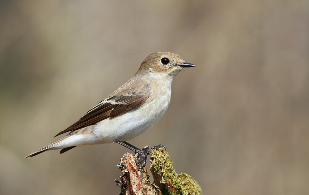 European Pied Flycatcher female from Lista, Norway.